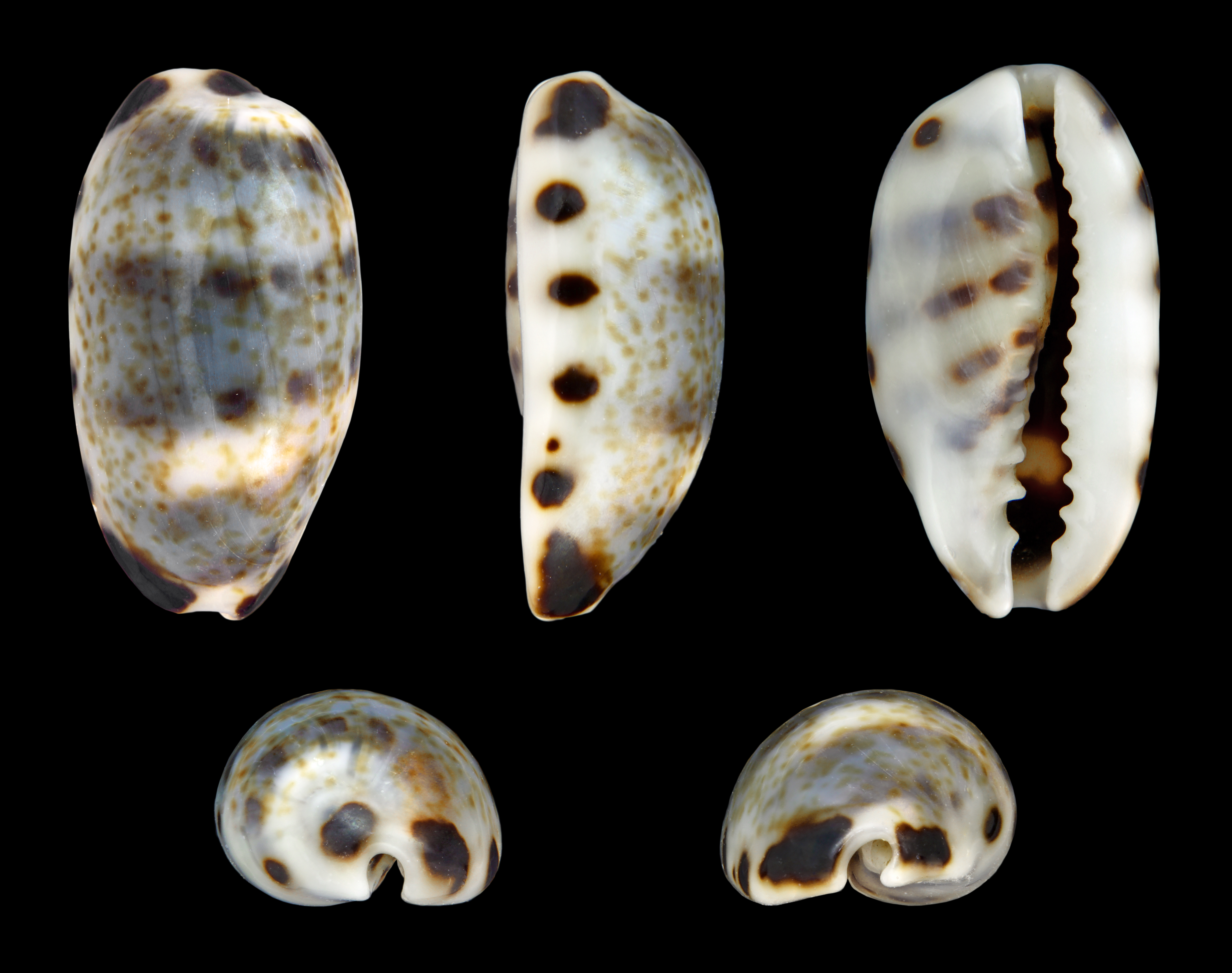 Lister's Cowry; Length 1.4 cm; Originating from Java; Shell of own collection, therefore not geocoded. Dorsal, lateral (right side), ventral, back, and front view.